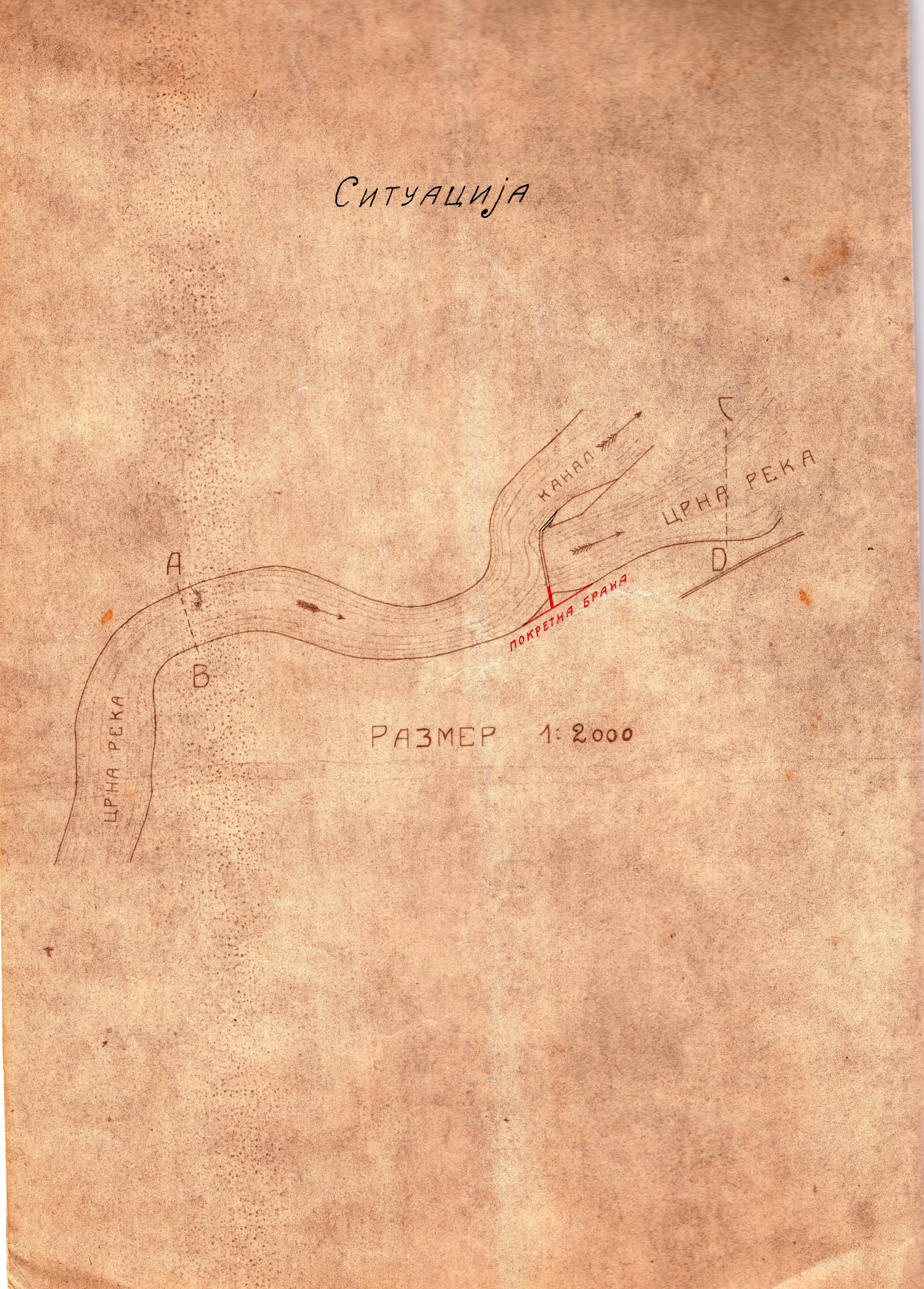 A sketch of the land around River Crna, a proposal for a dam (1927). This media file is produced by Wikipedian in Residence in Category:Wikipedian in Residence at DARM in 2017.